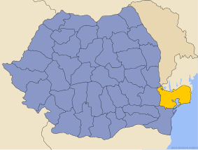 Location of Tulcea County in Romania.